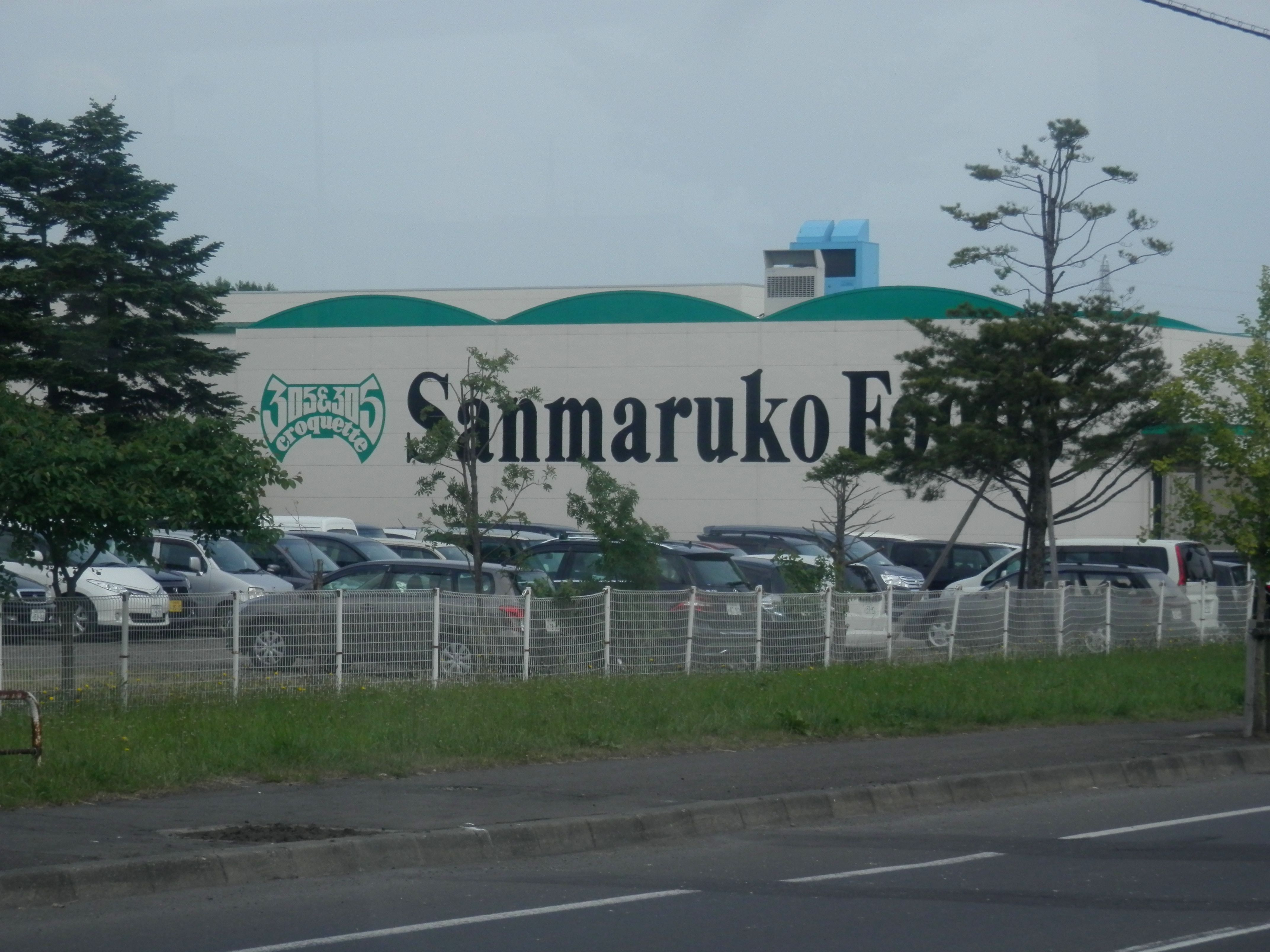 Sanmaruko Foods Factory in Eniwa, Hokkaido